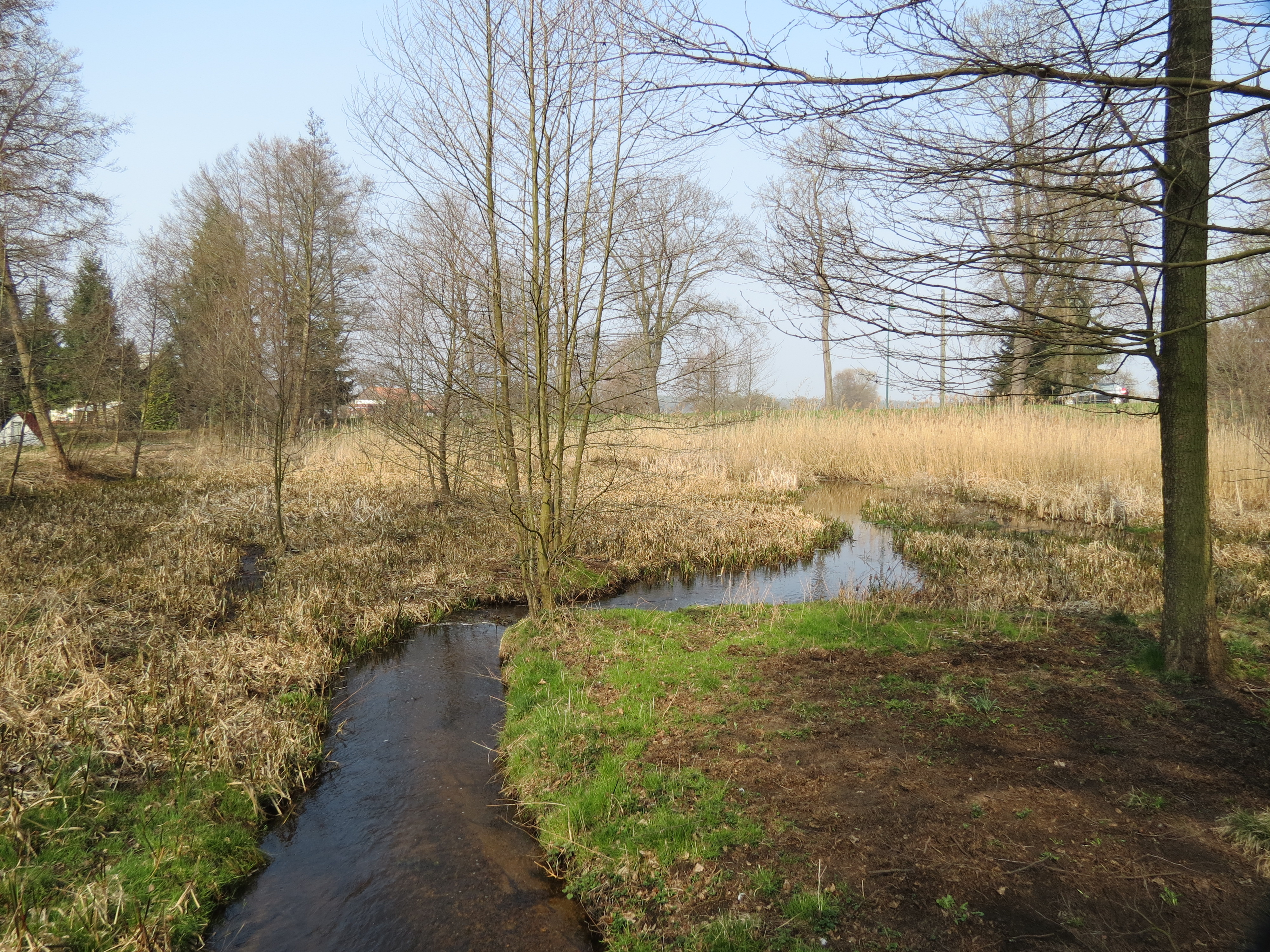 Baroldfließ bei Lamsfeld, Gemeindeteil von Lamsfeld-Groß Liebitz, Ortsteil der Gemeinde Schwielochsee, Landkreis Dahme-Spreewald, Brandenburg, Deutschland